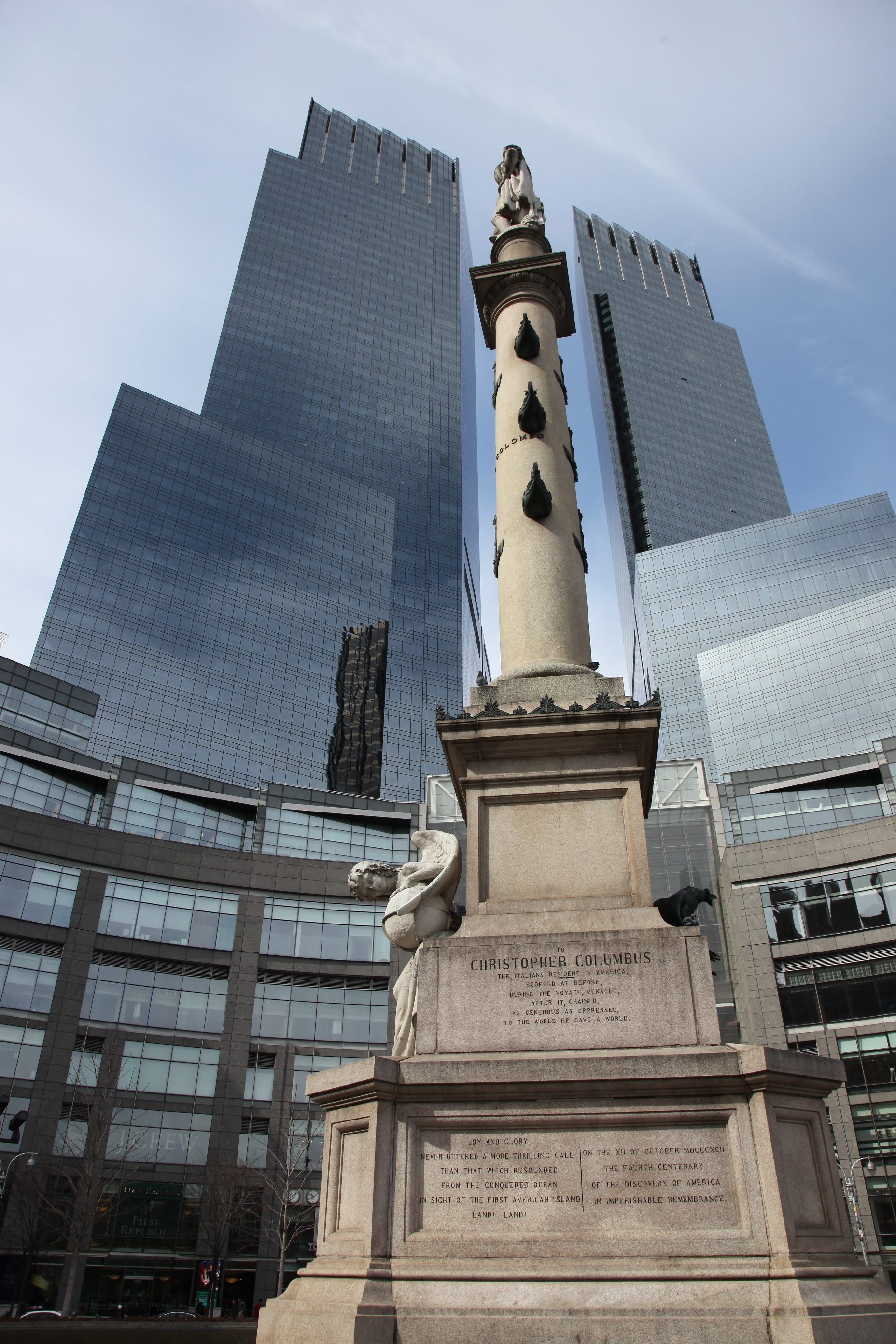 AOL Time Warner Center and Christopher Columbus